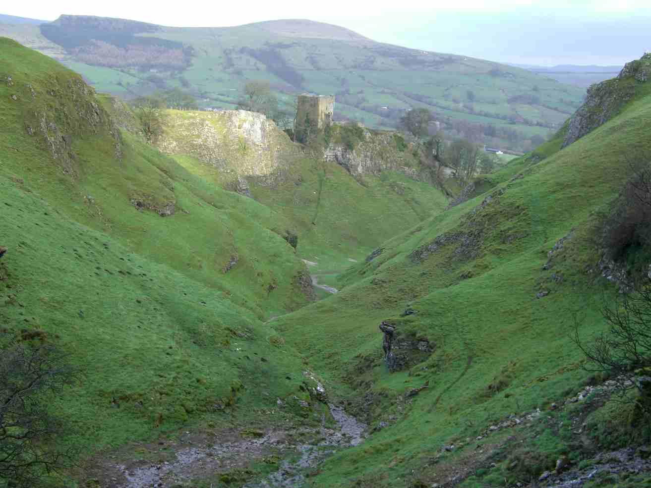 Personal picture taken by Mick Knapton